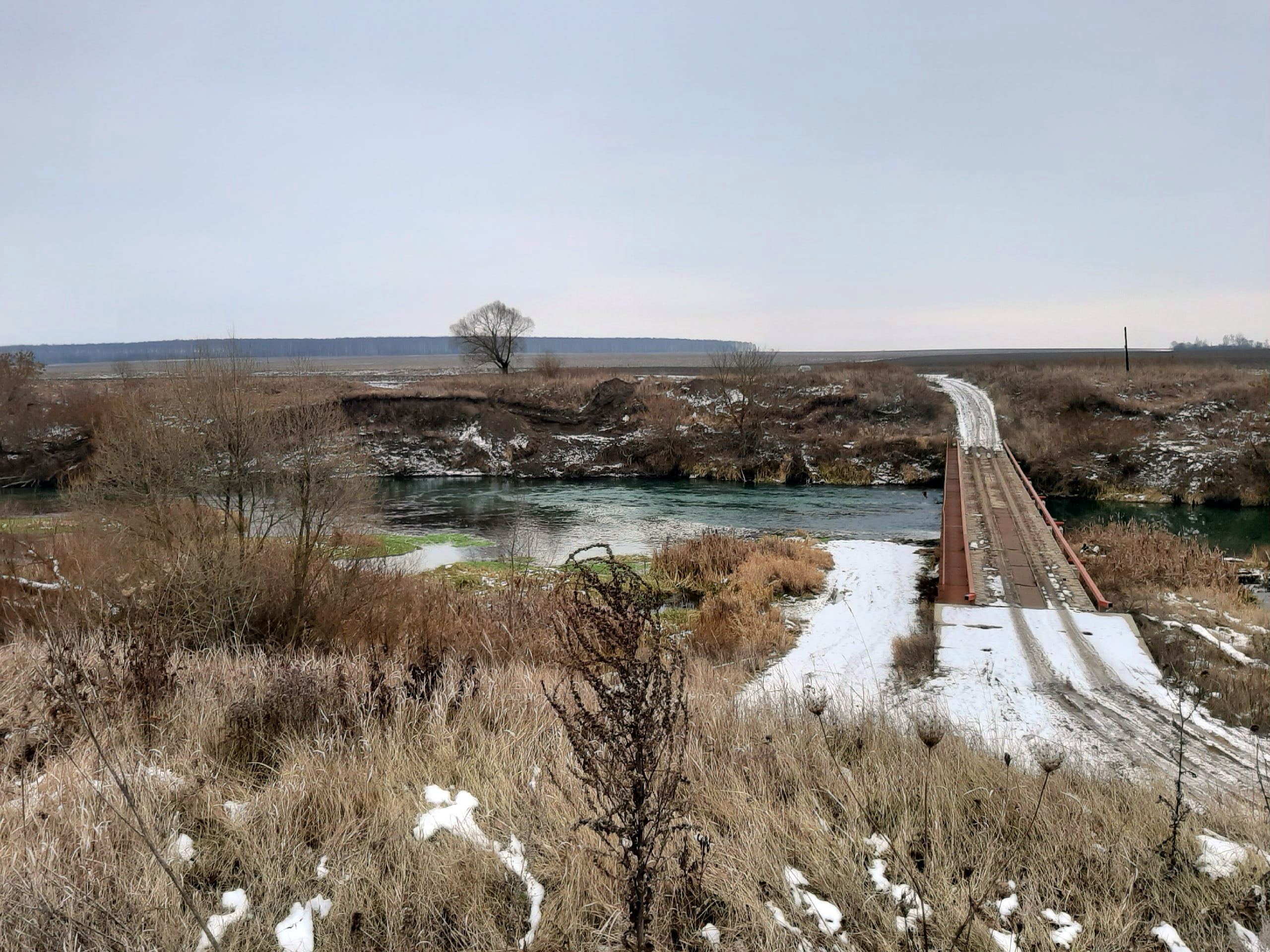 The bridge in Minovo (Orel region)